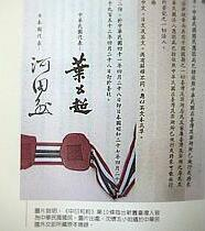 both sides signed Treaty of Taipei